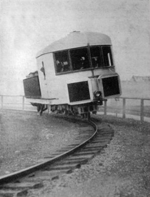 Louis Brennan's Monorail (1907) 15:35, 8. Jan 2005 Anton 315 x 411 (32520 Byte) (Einschienenbahn von Brennan und Scherl (1907). Scan und Bildbearbeitung: Anton (rp). Diese Rechte freigegeben. Bildrechte des Verlags Diek & Co erloschen, da Bild spätestens 1927 veröffentlicht wurde. Fotograf ist unbekannt.)